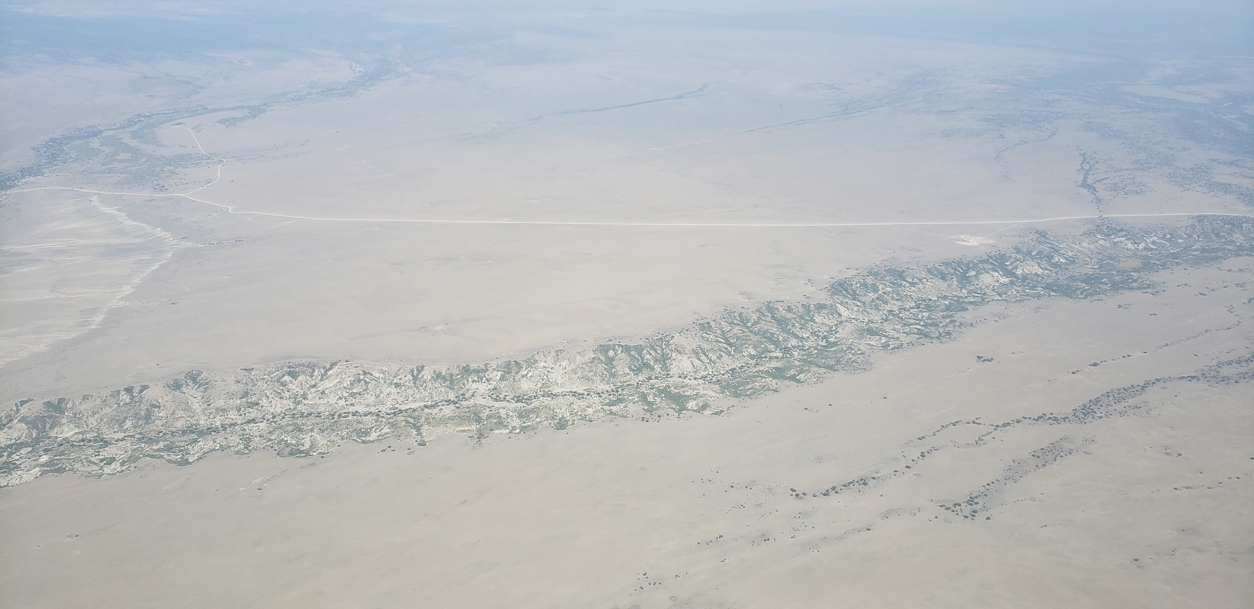 Olduvai Gorge from the air looking south